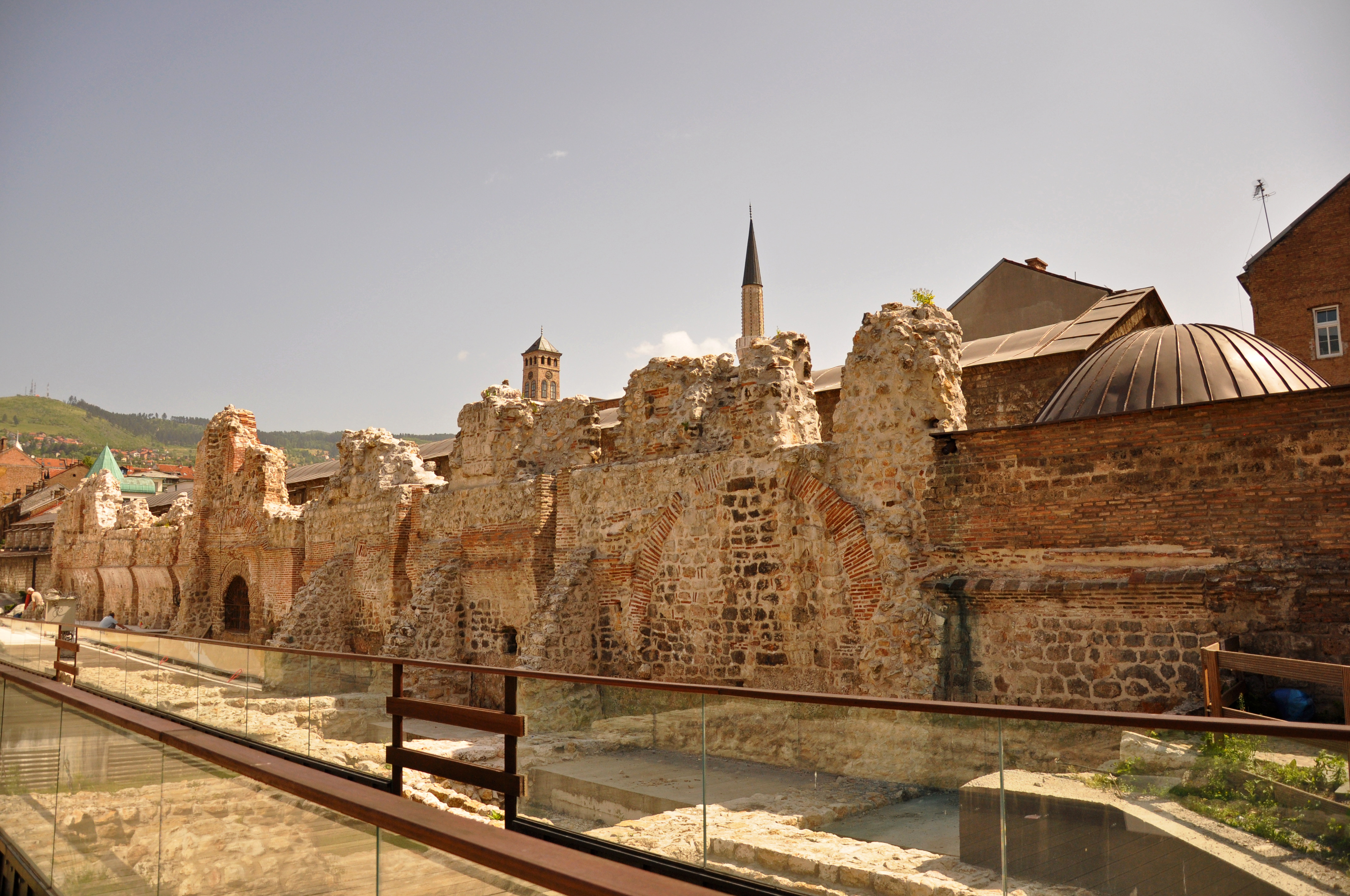 Built at the same time as the Gazi Husrev-Beys Bezistan, around 1540, it originally contained a garden and mosque It was greatly damaged in fires in 1679, 1832, and 1879 and most of the remaining walls disappeared in 1912.